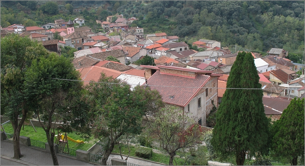 Dinami Landscape